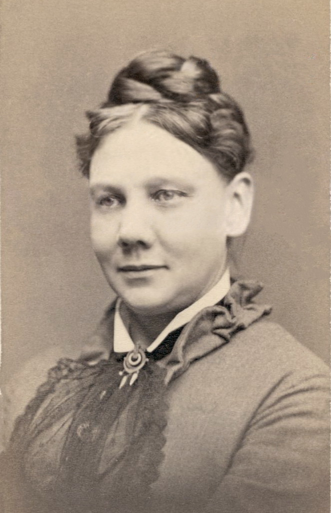 Mary Henderson Eastman (1818-1824), author, spouse of Seth Eastman, carte de visite